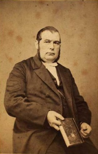 Lars Nielsen Bjørnbak (1824-1878), Danish politician, educator, and editor.